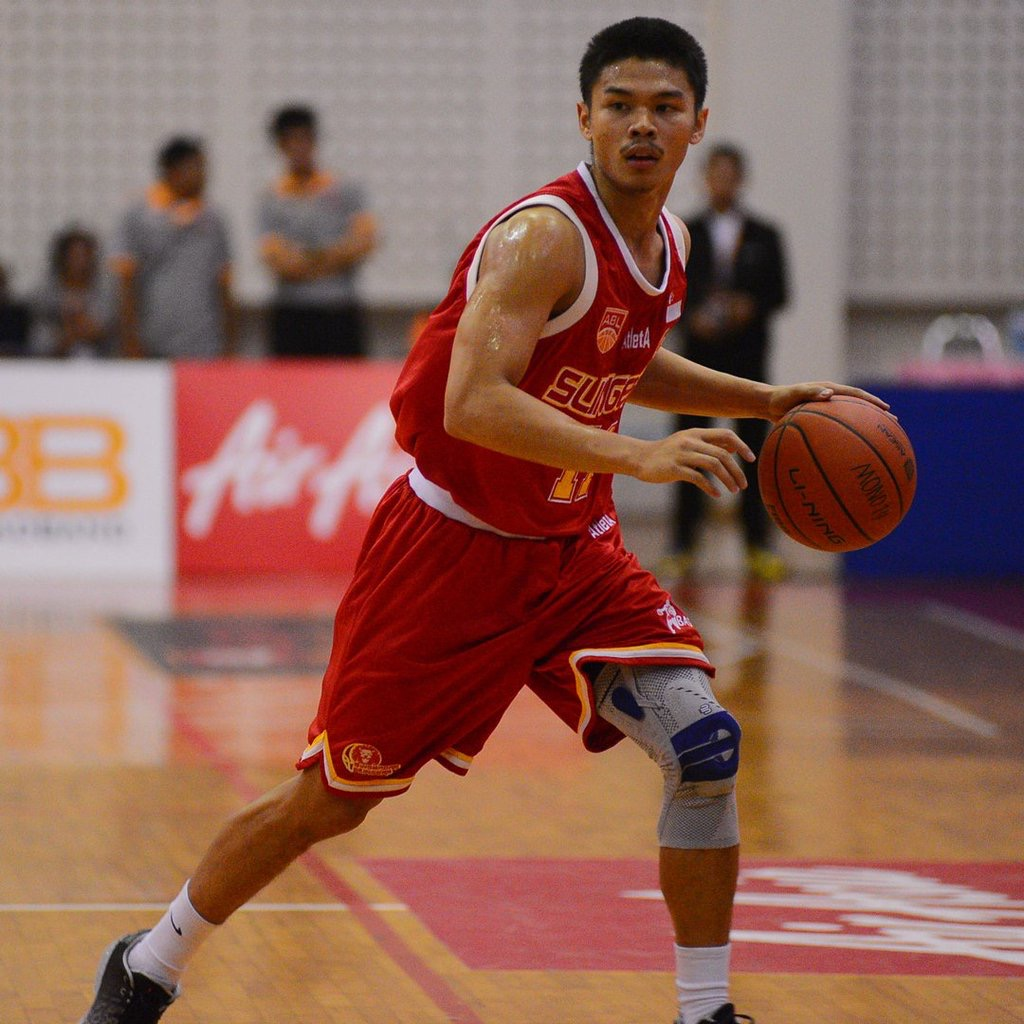 Rosales playing for the Singapore Slingers in 2016